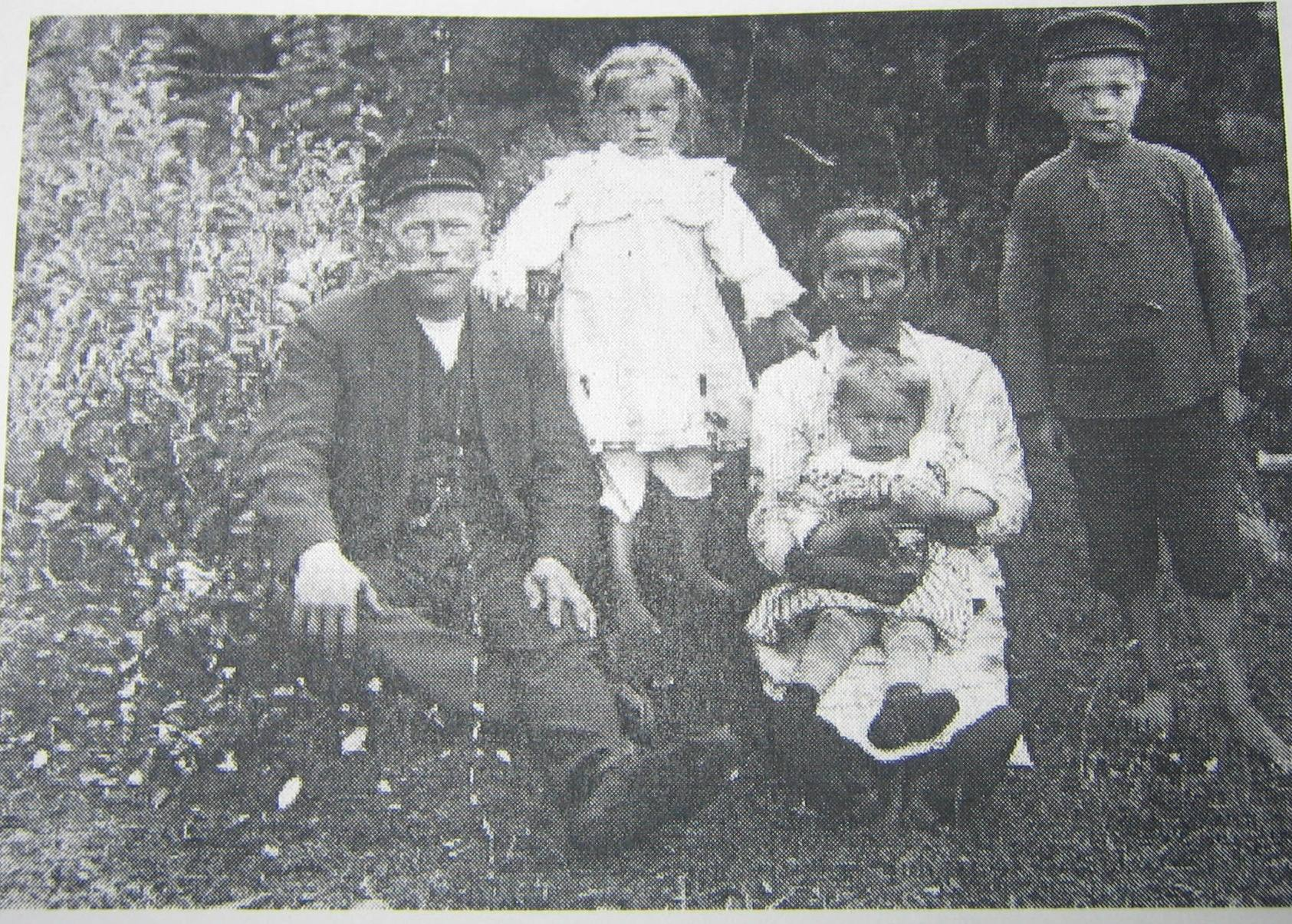 Finnish red guard leader Juho Jokinen and family